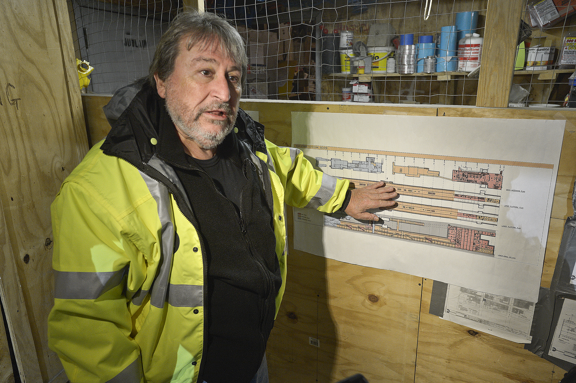 This is an update of the status of construction of the Second Avenue Subway as of late January 2013. This photo shows Dr. Michael Horodniceanu, President of MTA Capital Construction, the MTA agency building the Second Avenue Subway. Photo: Metropolitan Transportation Authority / Patrick Cashin.